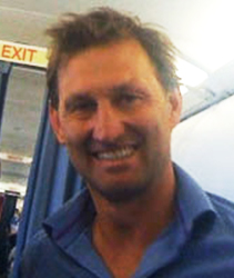 Picture of Tony Adams.